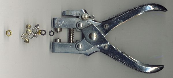 Eyelets and eyelet tool. Scan, upload MH 13:50, 2005 Jun 3 (UTC)